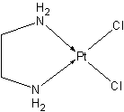 A chelated variation of cis-platin.